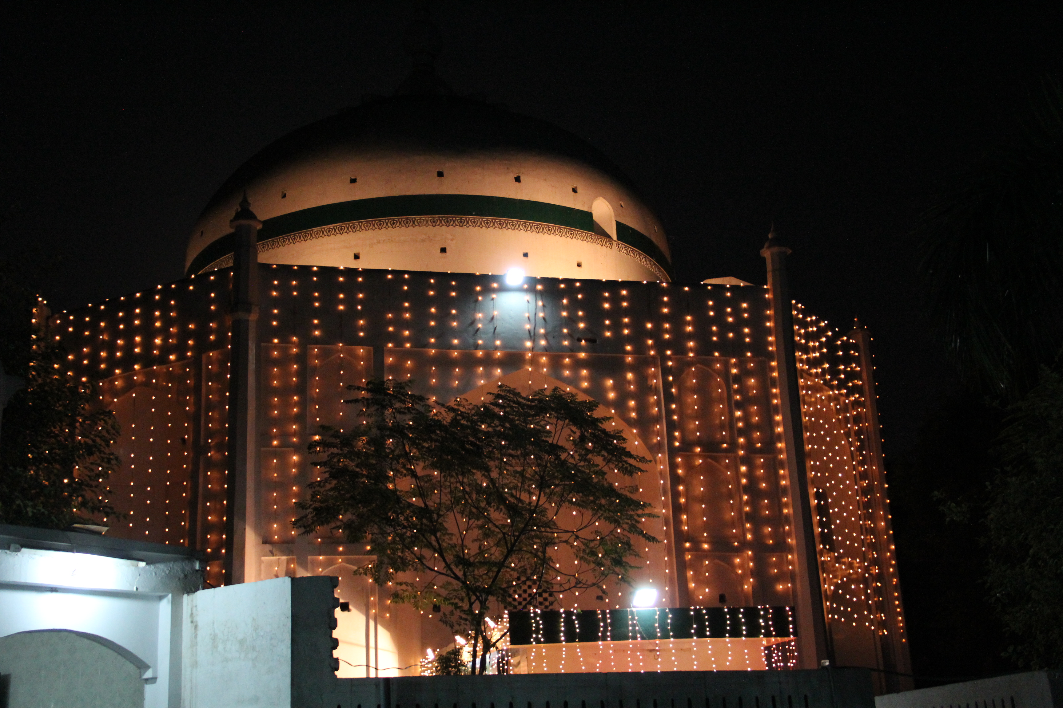 Hazrat Eshan tomb at night after renovation of Khwaja Sardar Mir Sayyid Sultan Masood Dakik